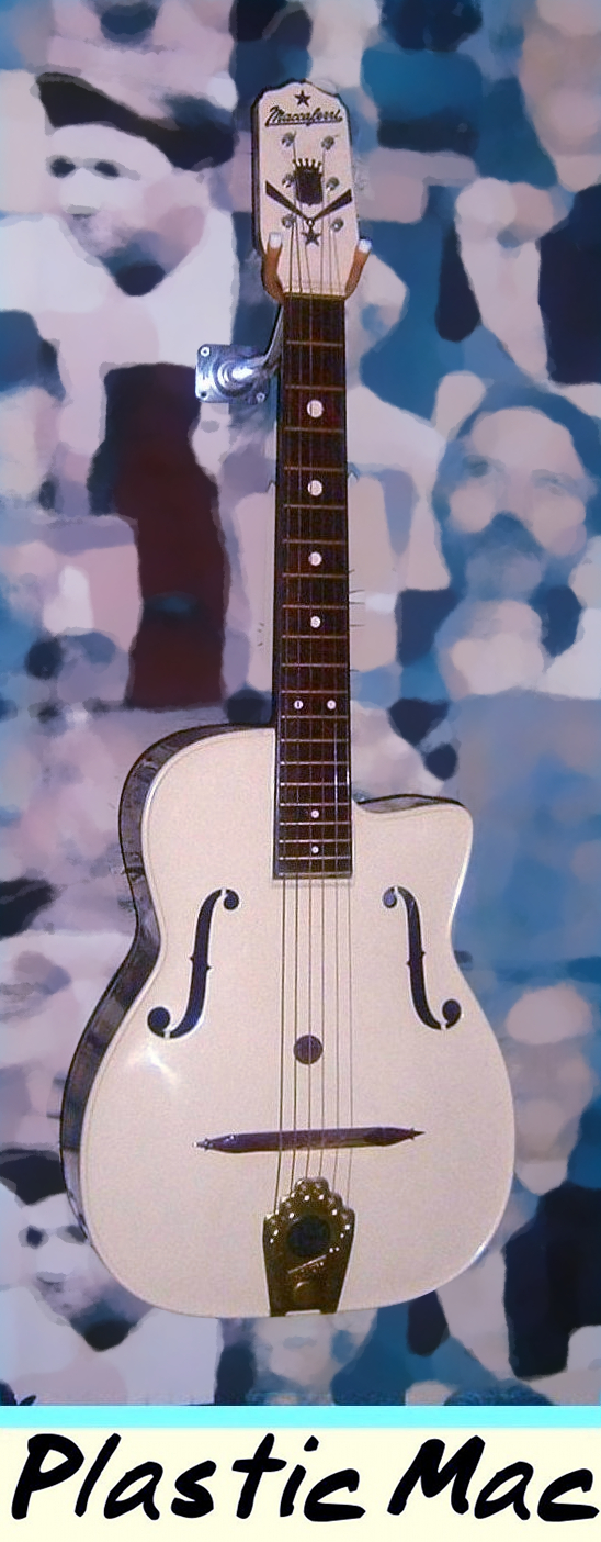 Maccaferri G40 DeLuxe Arch-top (lefty) - Plastic Mac “these are a few of my lefties I have bothered to photograph” References Tony Bacon (2012) "1953 - Maccaferri Introduces Plastic Guitars" in History of the American Guitar: 1833 to the Present Day, Backbeat Books, pp. 249–255 ISBN: 9781476856377. “MACCAFERRI G40 / Produced: 1953-c1958 / This Example: c1955 / Body: 13 1/4" wide, 3 1/2" deep / Maccaferri's first plastic guitars were the flat-top G-30 ($29.25) and archtop G-40 ($39.95) of 1953, manufactured by his French American Reed company in New York. The neck was bolted to the body, and despite a plastic exterior had a central metal core that extended the length of the instrument: the "stay true neck" of Maccaferri's ads, which also boosted that the plastic guitars were "not affected by atmospheric conditions — will not crack or swell."”, “SELMER MACCAFERRI JAZZ / Produced: France, 1932-c1935 ... Django Reinhardt used a number of Selmer Maccaferri-style guitars in his career, including at fiest a D-hole model like this, and later oval-hole guitars (below). ... / SELMER JAZZ / Produced: France, c1934-1952 ... After Maccaferri left Selmer the company continued to make guitars of similar design but with a modified oval soundhole. ...”, “Mario Maccaferri was a talented guitarist and instrument designer, best known today for his Selmer-made guitars that were used to spectacularly by Django Reinhardt. ...” Michael Wright (2000) "Maccaferri Guitars" in Guitar Stories: The Histories of Cool Guitars, Guitar Stories (Musical Instruments Series), 2, Hal Leonard Corporation, pp. 183-195?, 215-227 ISBN: 9781884883088.